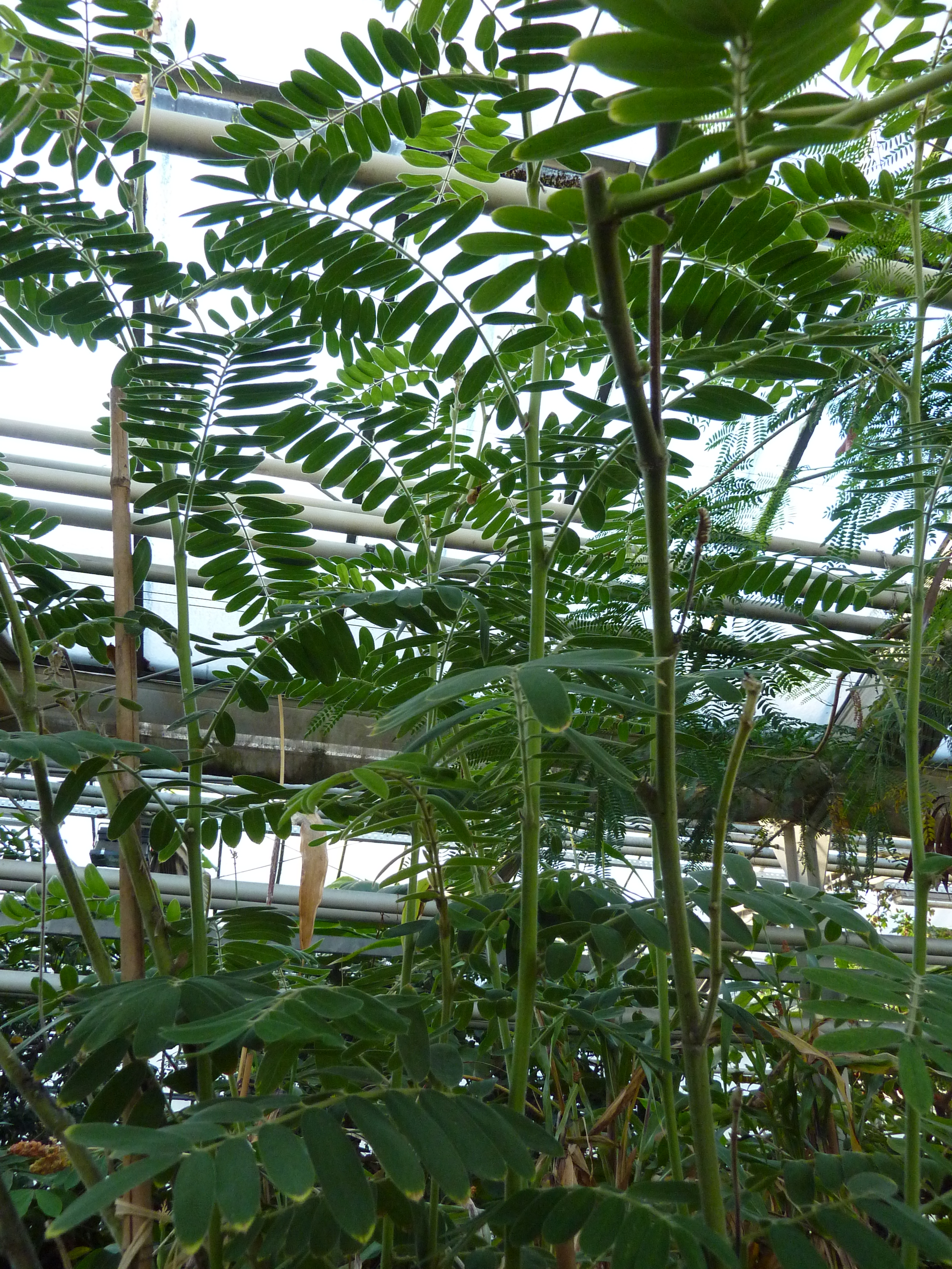 Tephrosia vogelii growing in the greenhouse of the Deutsches Institut für tropische und subtropische Landwirtschaft, Witzenhausen, Germany